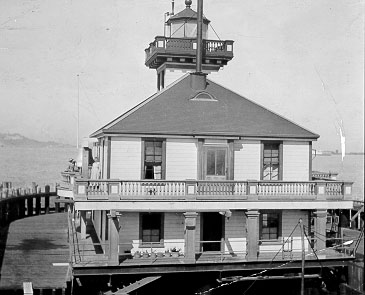 Public Domain statement here; Oakland Harbor Light is a lighthouse in Embarcadero Cove, California.